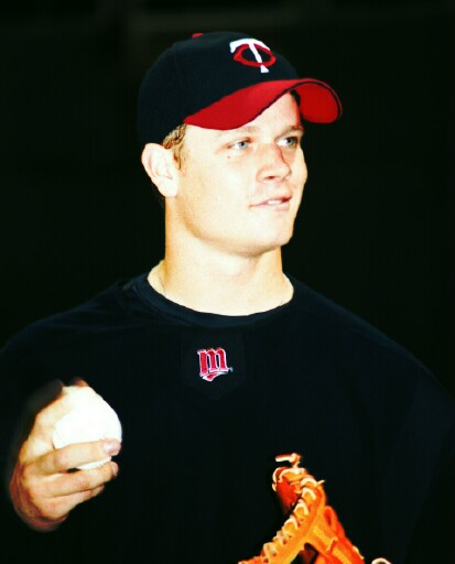 This photo was taken by user dlz28 and is released into the public domain. 21:11, 1 May 2006 . . Dlz28 . . 413×512 (42 KB)